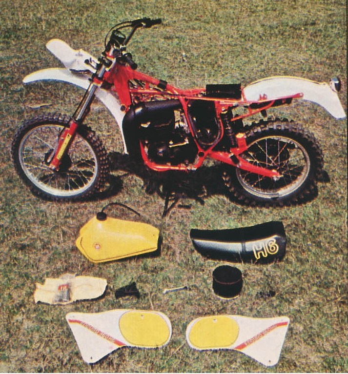 Montesa 360 H6